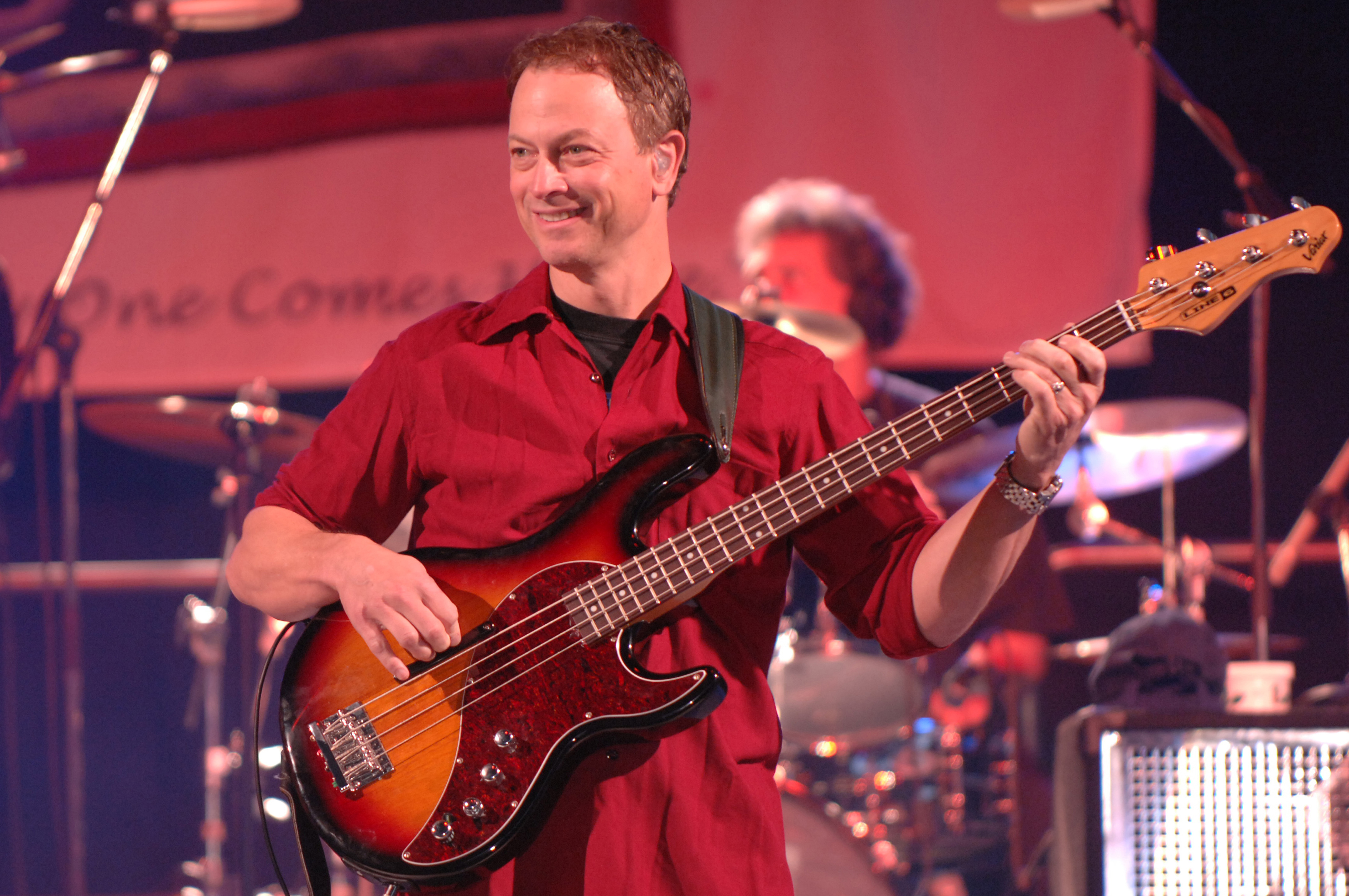 Gary Sinise, bass player of Lt. Dan Band, plays for the troops and their families during a USO show at Ramstein Air Base, Germany. ID: 070514-F-1111B-036